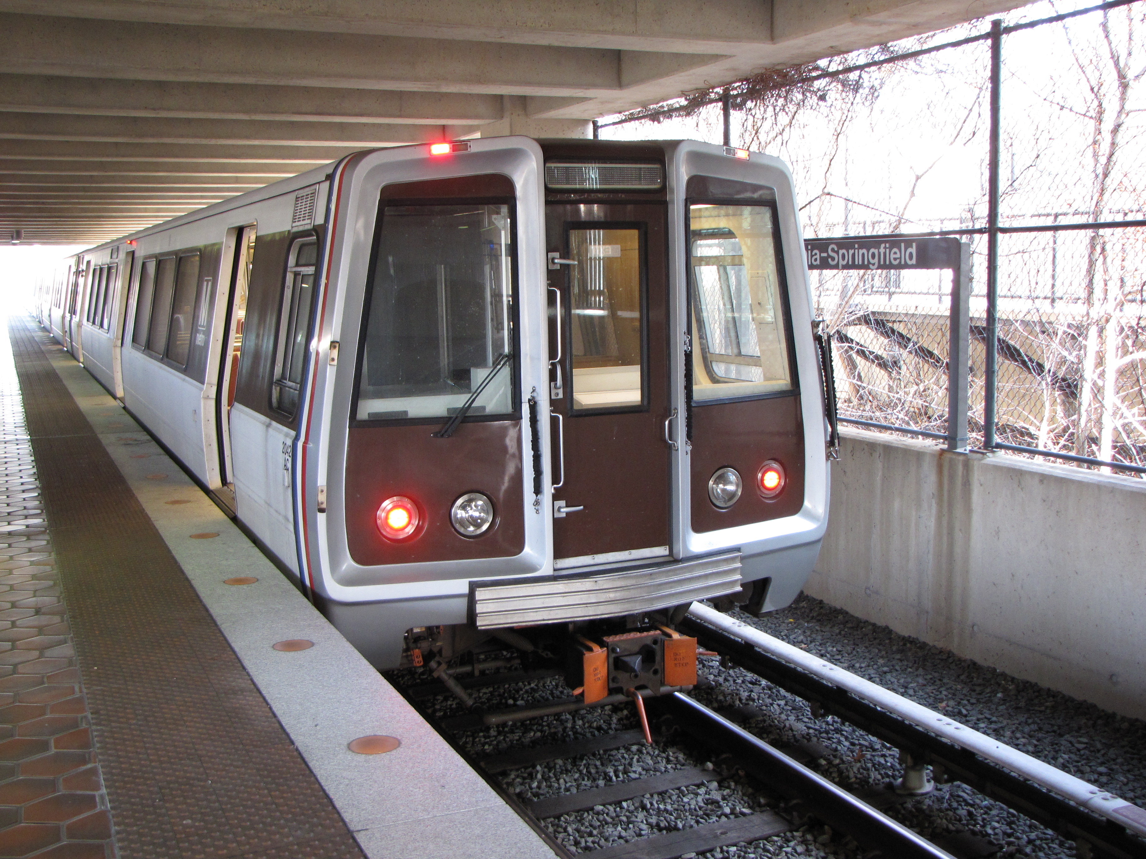 Breda 2042 on the inbound track at Franconia-Springfield station in Fairfax County, Virginia.